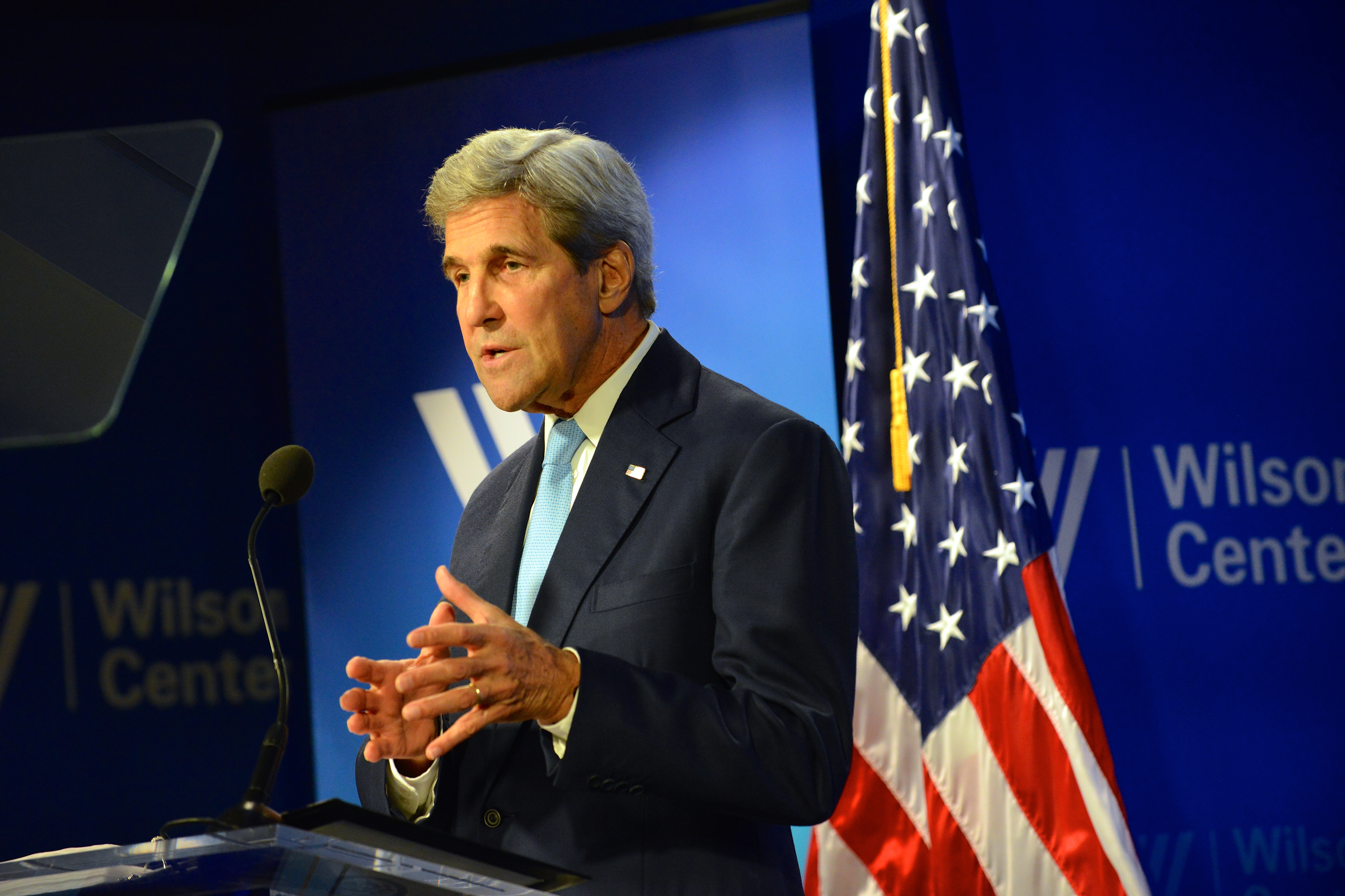 U.S. Secretary of State John Kerry delivers remarks on the Trans Pacific Partnership, at the Woodrow Wilson Center for International Scholars, in Washington, D.C. on September 28, 2016. [State Department Photo/ Public Domain]